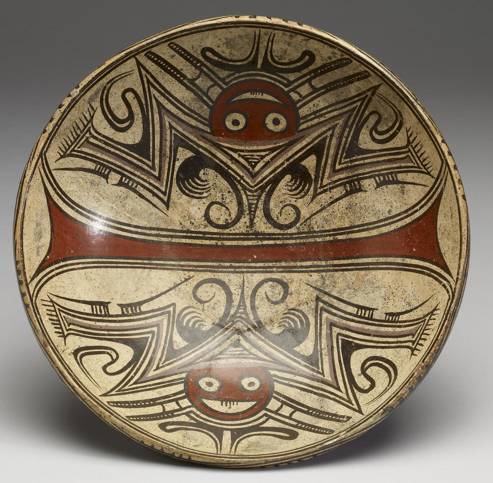 Panamanian (Joaquín Polychrome) AD 600-800 H: 6 x Diam: 10 7/8 in. (15.24 x 27.69 cm) Description Binary opposition is a central precept of ancient Panamanian cosmology, which viewed the cosmos as the pairing of opposites: male-female, light-dark, spirit world-natural world. The universe was composed of three levels-the upper sphere, the middle sphere, and the lower sphere. The latter was associated with the female domain and was mirrored in the upper sphere, the domain of the male principle. Decorative motifs, especially certain geometric forms frequently found on painted ceramics, likely had symbolic meanings, although their significance has largely been lost. Perhaps, too, some forms encompassed esoteric knowledge that was not intended for the uninitiated. Regardless, the dynamic imagery that characterizes the Conté and Marcaracas pottery styles is cognitive in its intent and likely reflects fundamental principles of indigenous religious beliefs and cosmology. The pedestal dish is decorated with a bilaterally symmetrical portrayal of a shaman in magical flight. Having taken his animal spirit form, here a bat, the shaman's ability to traverse the cosmic realms is implied by his portrayal in mirror image. Only a hint of the shaman's human self remains in his face; otherwise the transformation into a bat is complete with outstretched, featherless wings, and sinuous clawed feet.